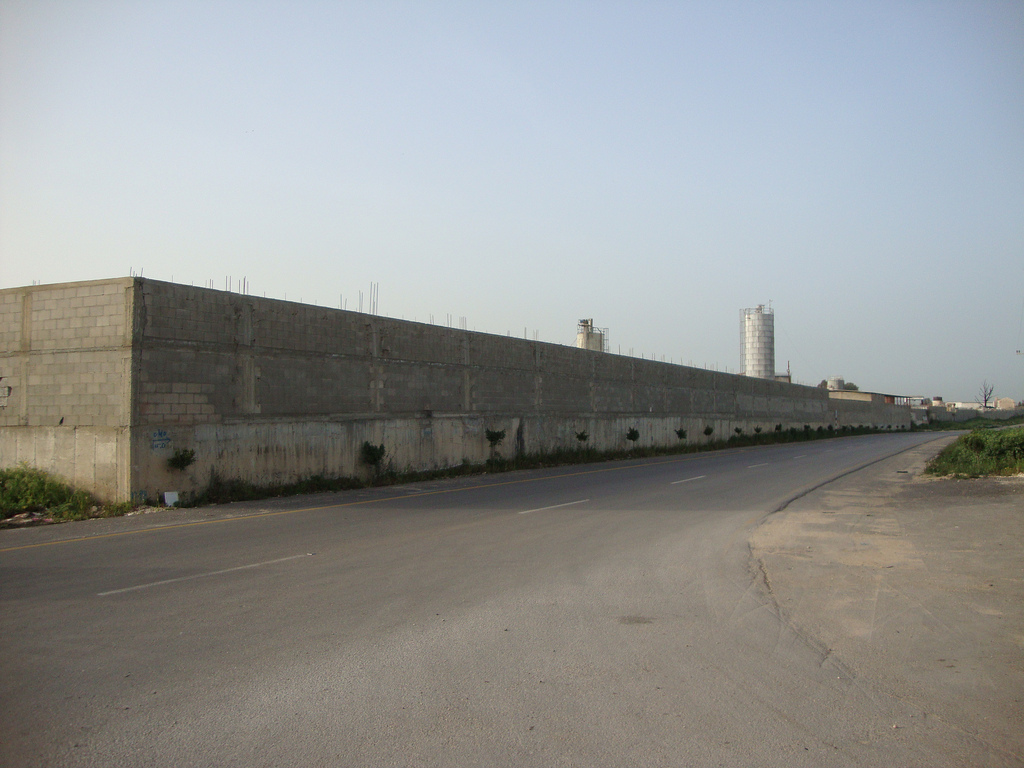 Chemical factory in Tulkarem, West Bank, Palestine.